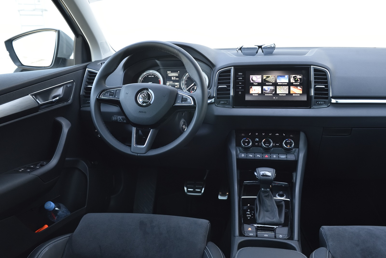 Skoda Karoq interior